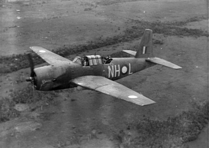 A Vultee Vengeance dive bomber (coded NH-L, named "Dianne") of No. 12 Squadron RAAF during a mission out of Merauke, Dutch New Guinea, in December 1943. The crew was Flight Lieutenant C.J.B. Mcpherson of Horsham, Victoria (Australia), as pilot and Flight Sergeant Turner as observer.